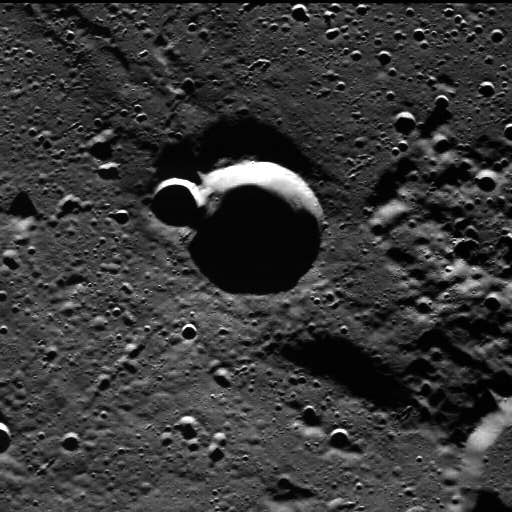 Bechet crater on Mercury. Approximate north is up. Emission Angle: 7.3 Incidence Angle: 83.4 Latitude: 83.0 Longitude: 266.7 Phase Angle: 76.1